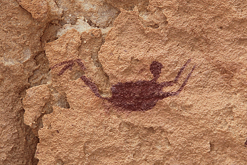 Painting of swimmers in the Cave of the Swimmers, Wadi Sura, Gilf Kebir, Western Desert, Egypt